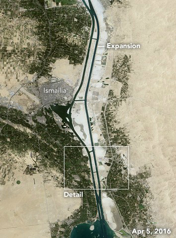 Satellite view: The Suez Canal (left) and the New Suez Canal in April 2016 (right).